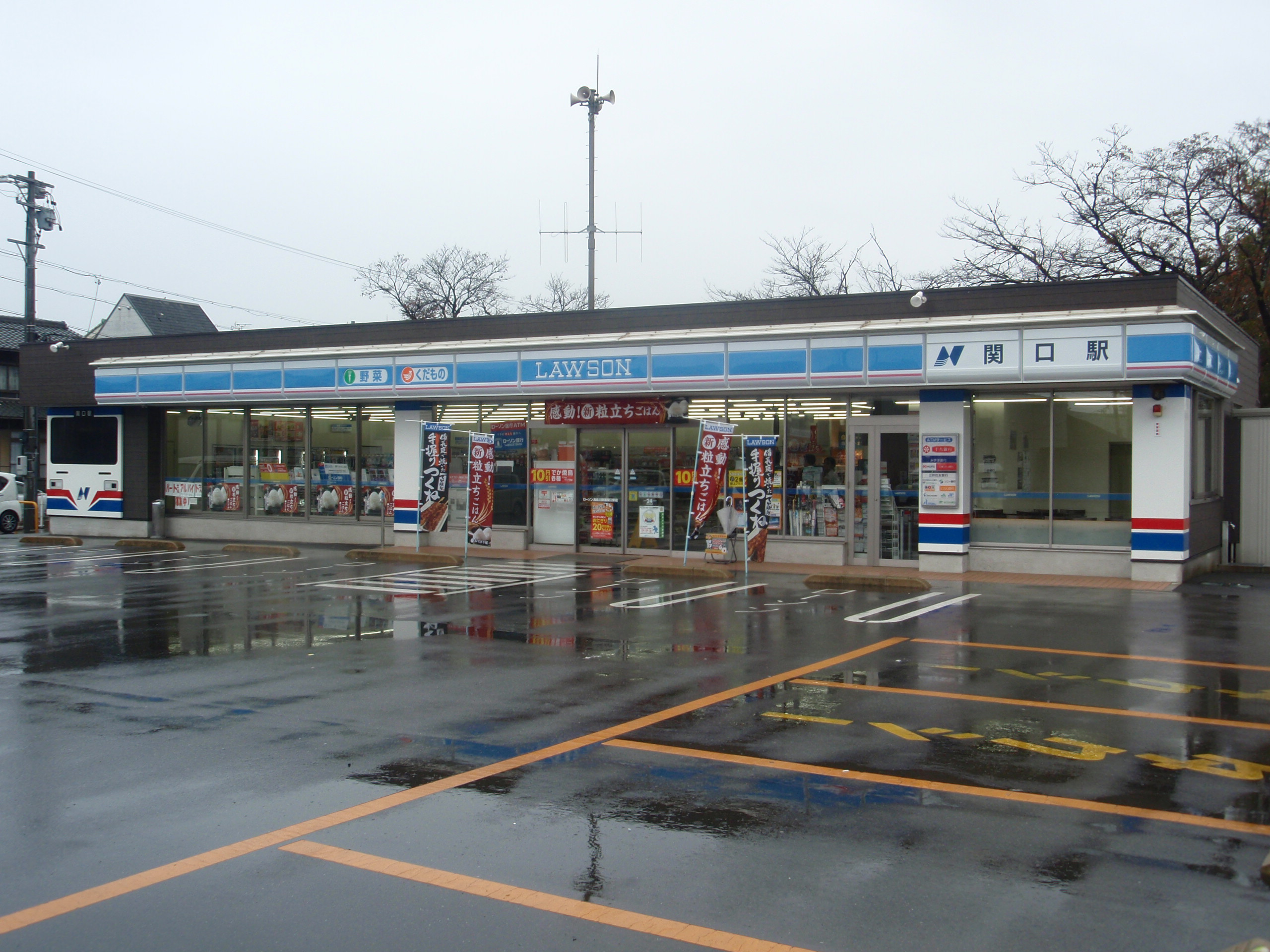 Lawson (convenience store) Nagaragawa Railway Sekiguchi Station shop, Seki city, Gifu prefecture, Japan